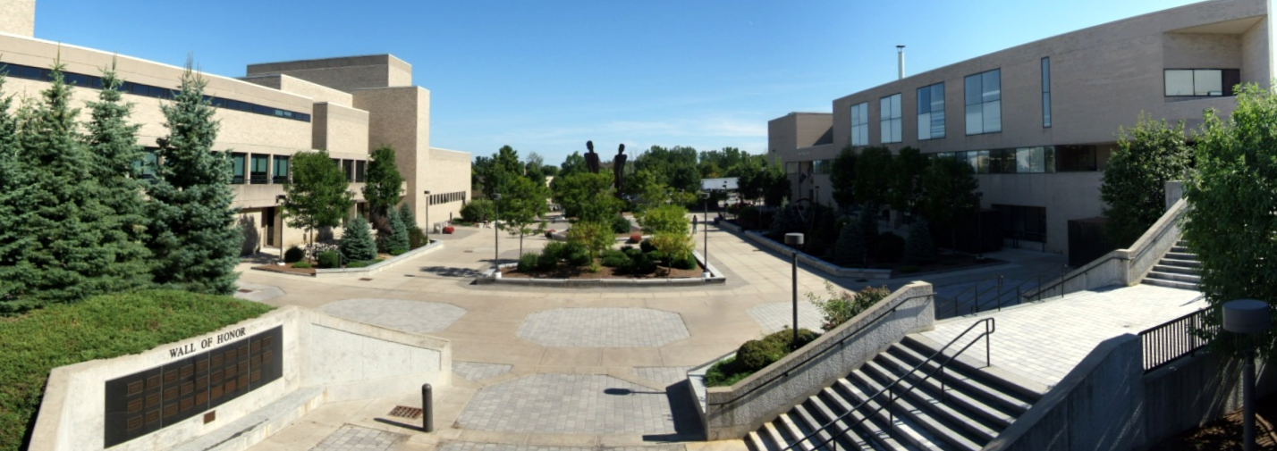 A panoramic picture of the Angell Center courtyard at the State University of New York at Plattsburgh.